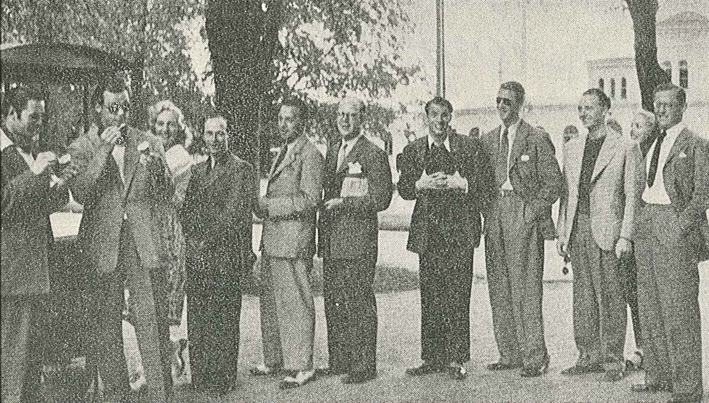 Swedish bandleader Thore Ehrling (1912-1994) and members of his orchestra enjoying an ice cream, circa 1942.